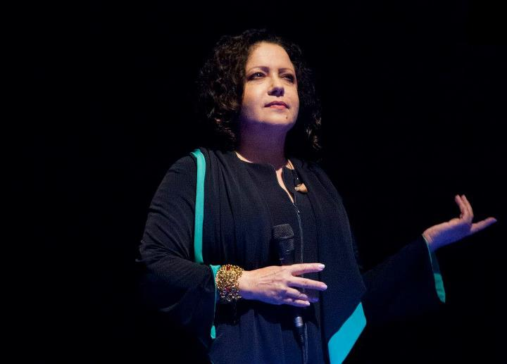 Antonella Ruggiero in concert - August 2012